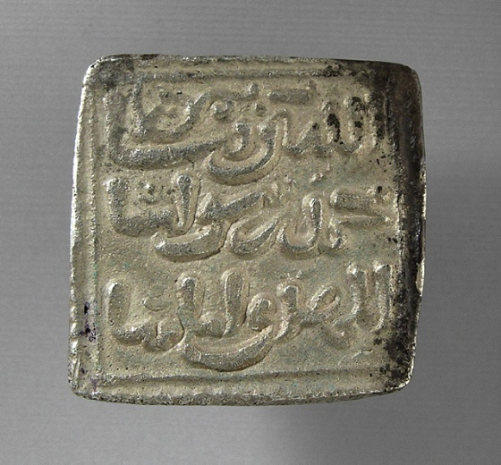 Spain or North Africa, second half of 12th-first half of 13th century Tools and Equipment; coins Coin The Madina Collection of Islamic Art, gift of Camilla Chandler Frost (M.2002.1.434) Islamic Art